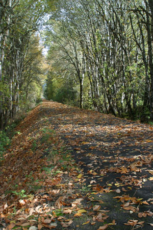 The Row River National Recreation Trail near Cottage Grove, Oregon, in Lane County